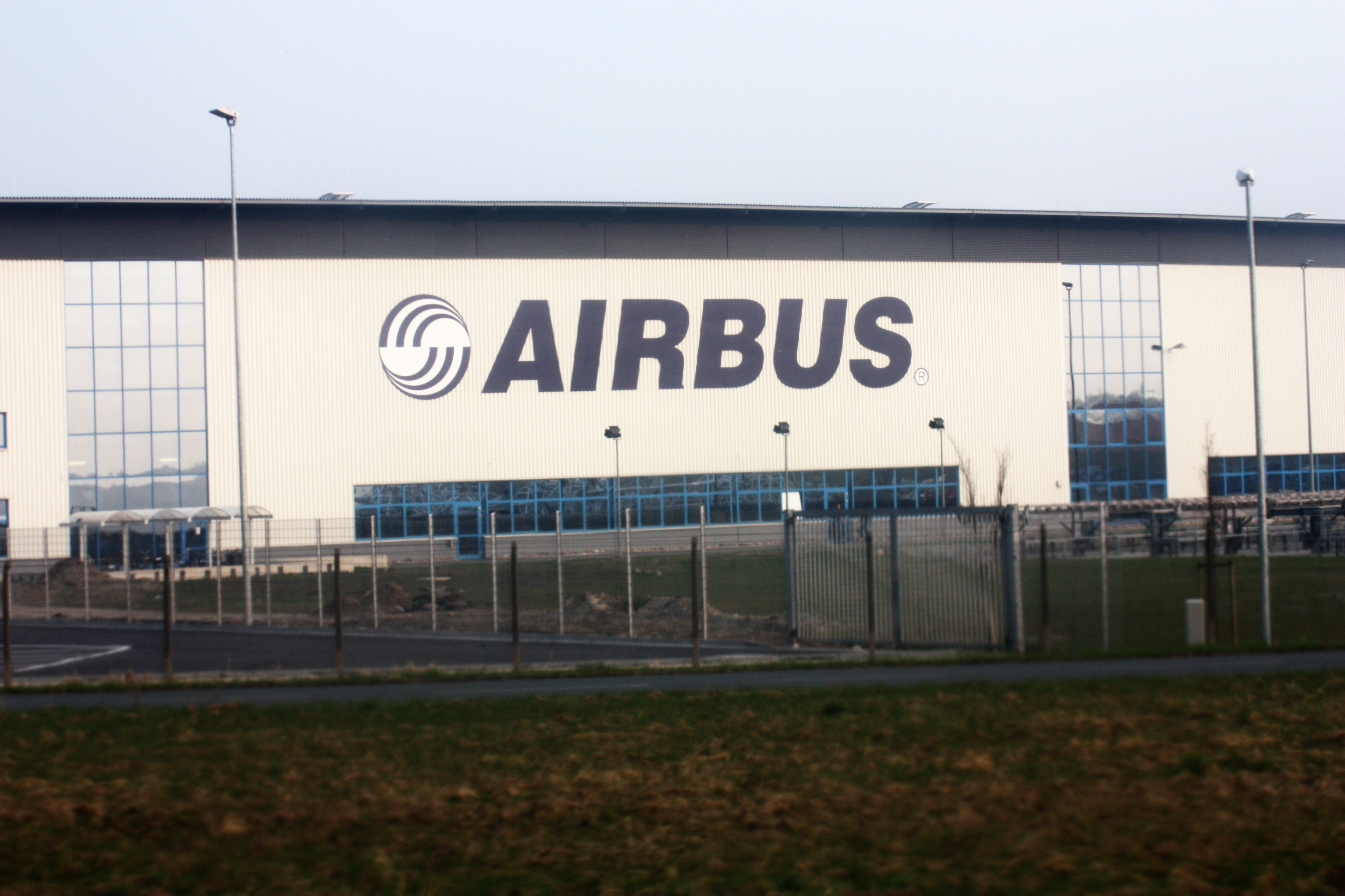 Flughafen Bremen, view of Airbus Factory in Bremen, during taxi on Airport Bremen